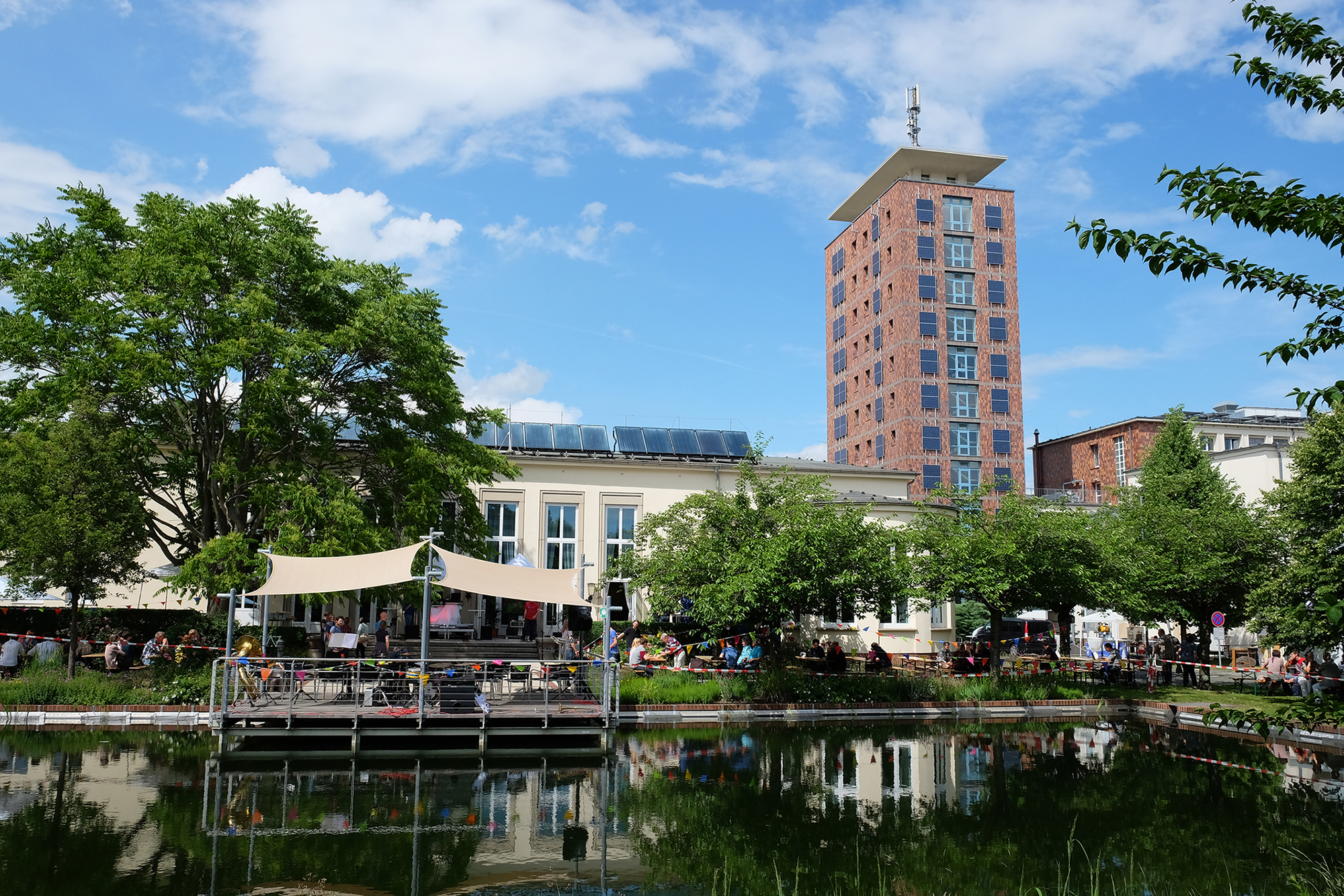 UFZ, Standort Leipzig / Location Leipzig